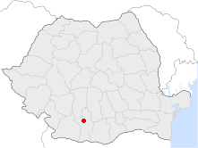 Location of Slatina in Romania.